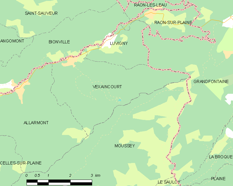 Map of French municipality Vexaincourt